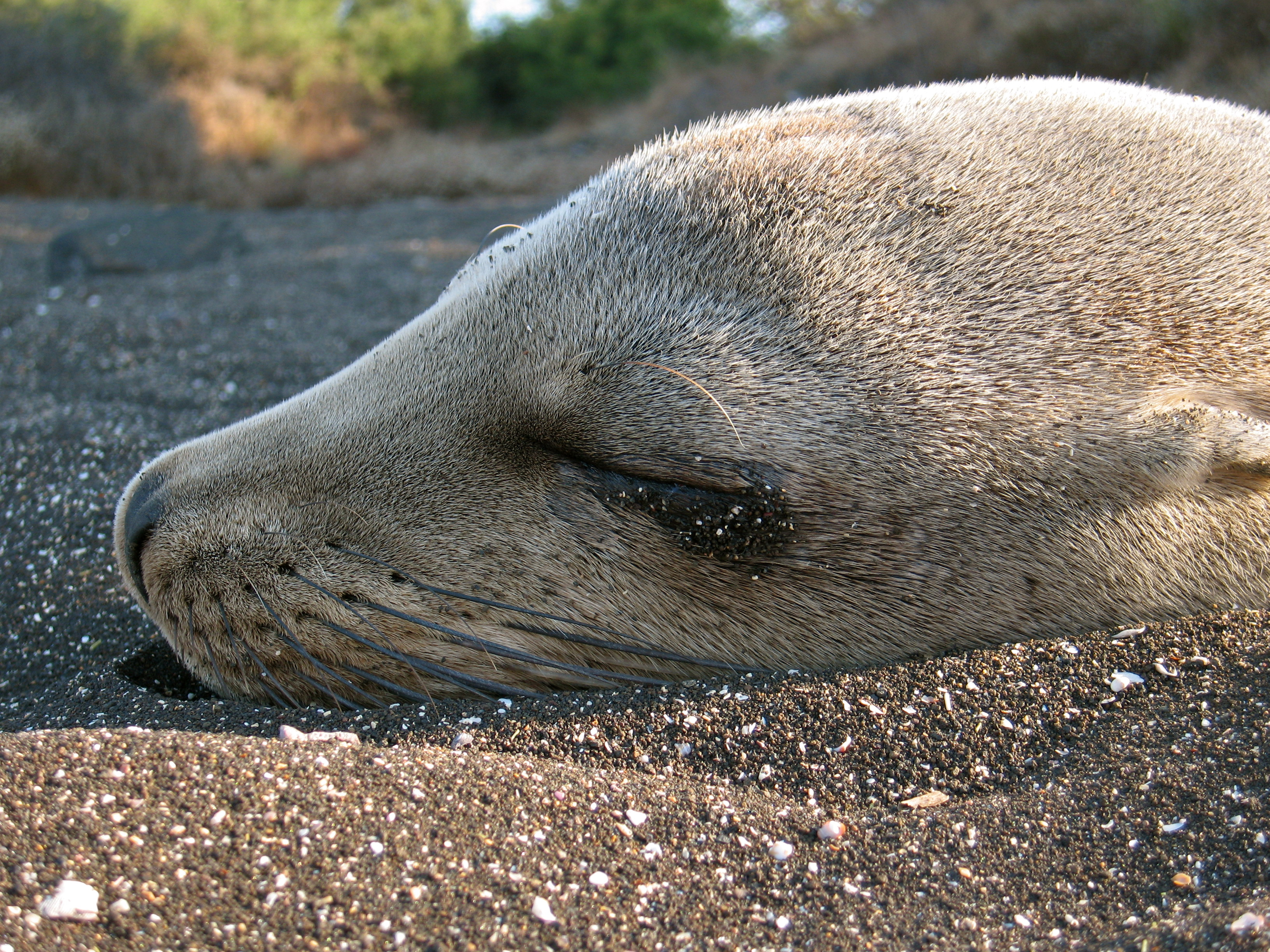 A close-up of a resting Sea Lion in Galapagos National Park, Ecuador. Taken in August 2007.